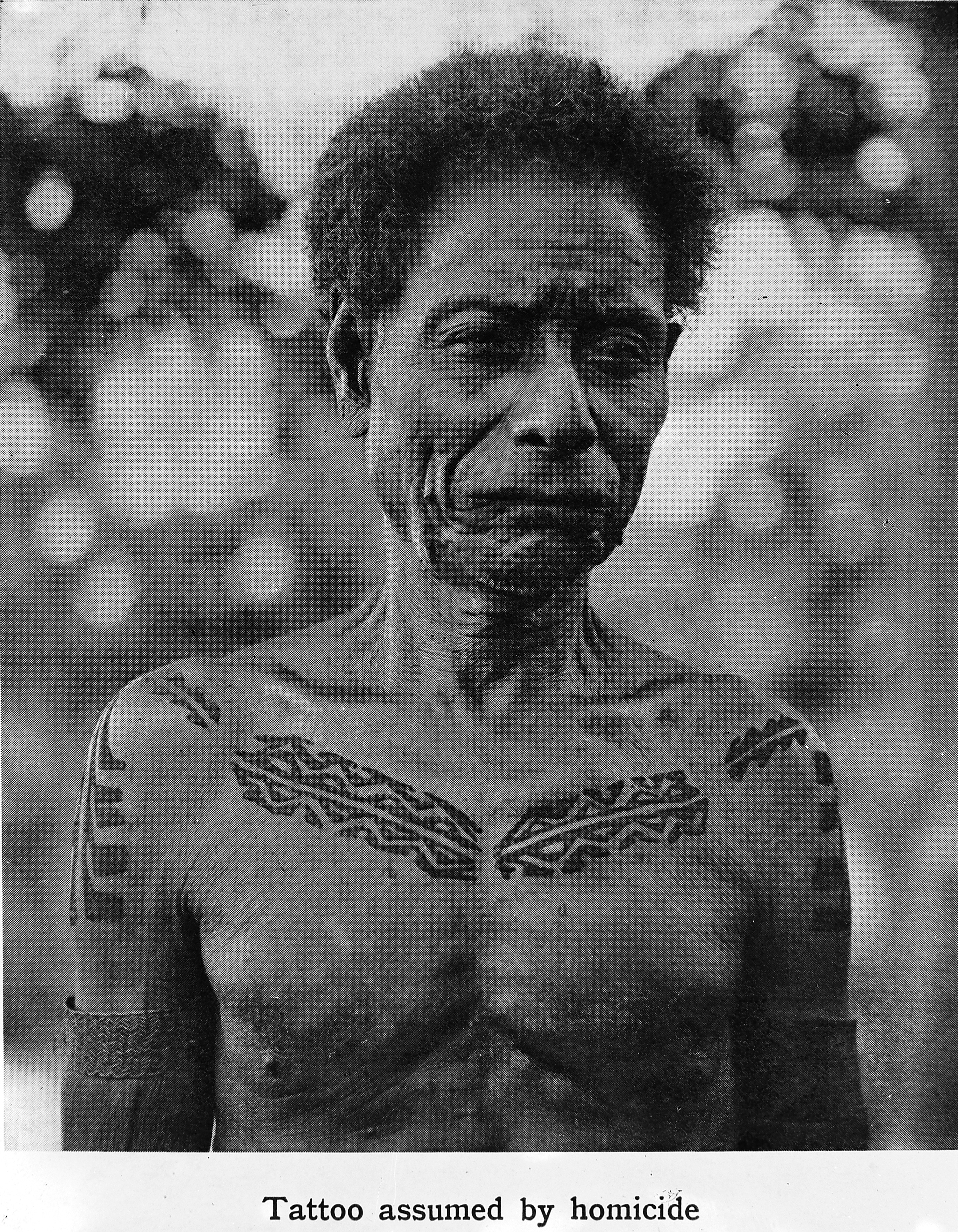 Illustrations of tattoo assumed by homicide. The Melanesians of British New Guinea / by C.G. Seligmann, M.D. ; with a chapter by F.R. Barton, C.M.G. and an appendix by E.L. Giblin. Cambridge : The University Press, 1910. Wellcome Images Keywords: Ethnology; Ethnography; body decoration; artificial deformation; Culture; indigenous non-european medicine